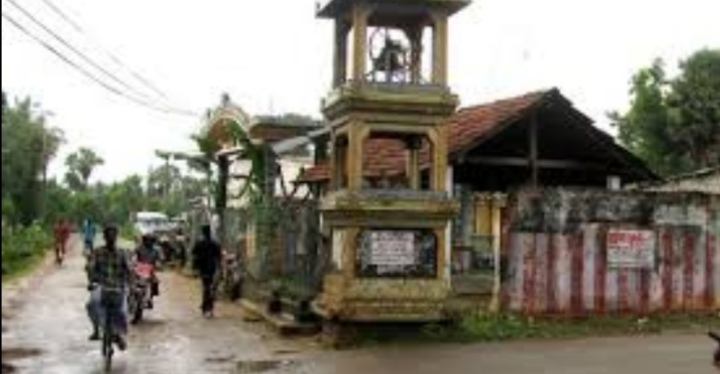 Pandarikulam After War Ended